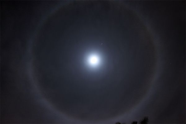 Photo of a Montesian Moon Ring (aka Winter Halo).